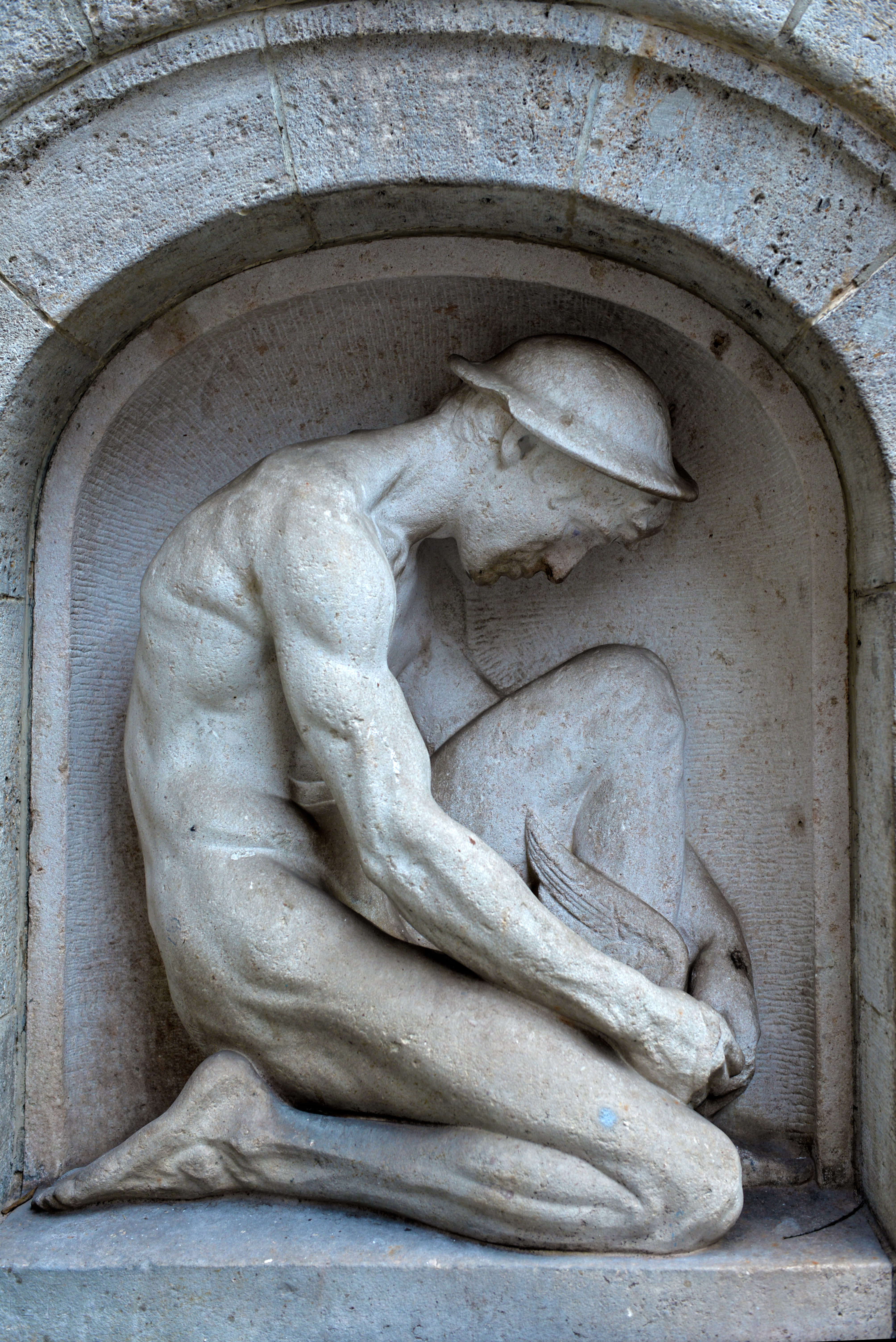 Mercury Fountain in Stuttgart-Mitte